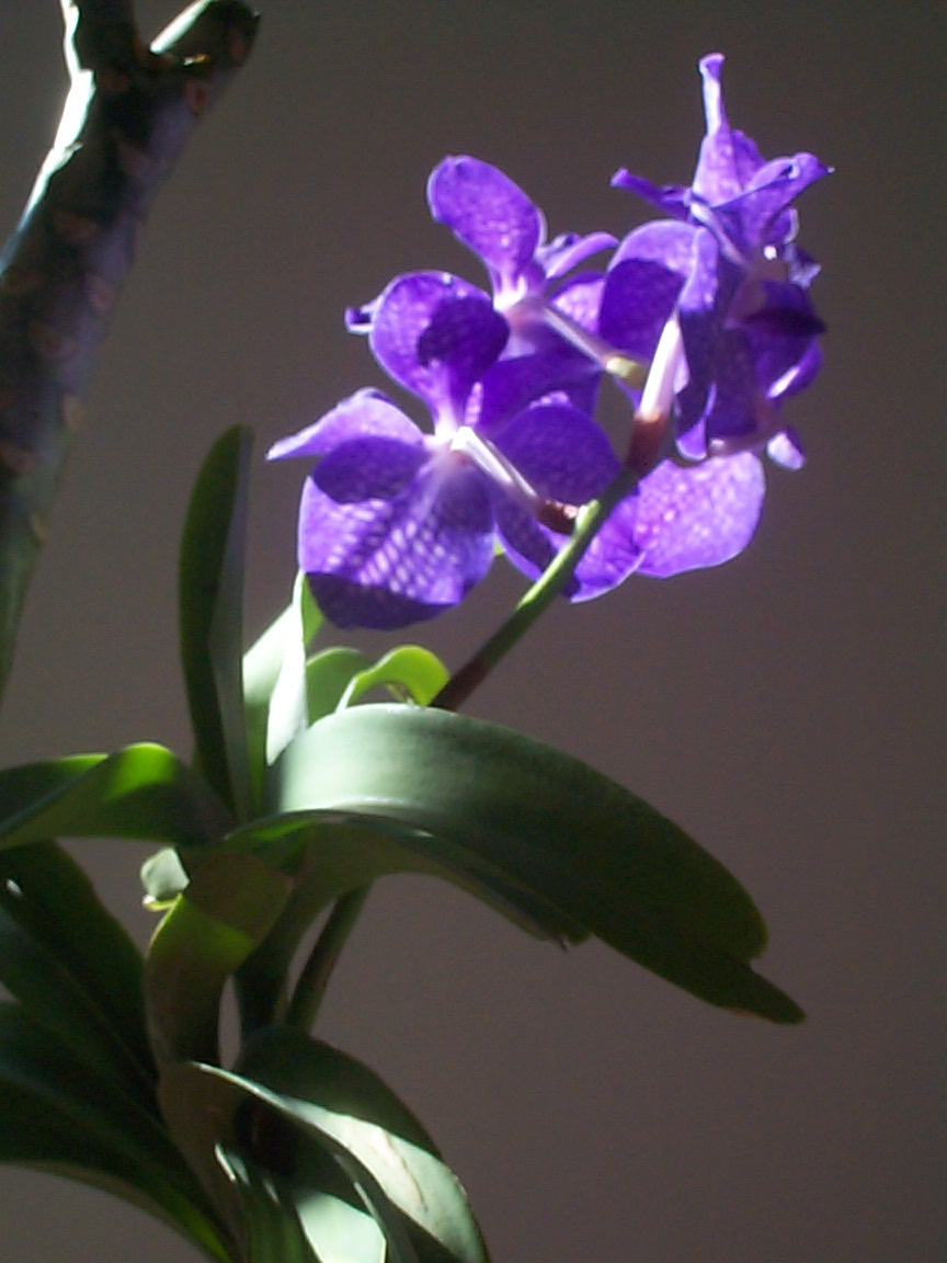 i make this picture @ Feb 24th 2007, © ask me if you use it.